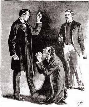 Sherlock Holmes in "The Adventure of the Blue Carbuncle", which appeared in The Strand Magazine in January, 1892. Original caption was "'HAVE MERCY! HE SHRIEKED.